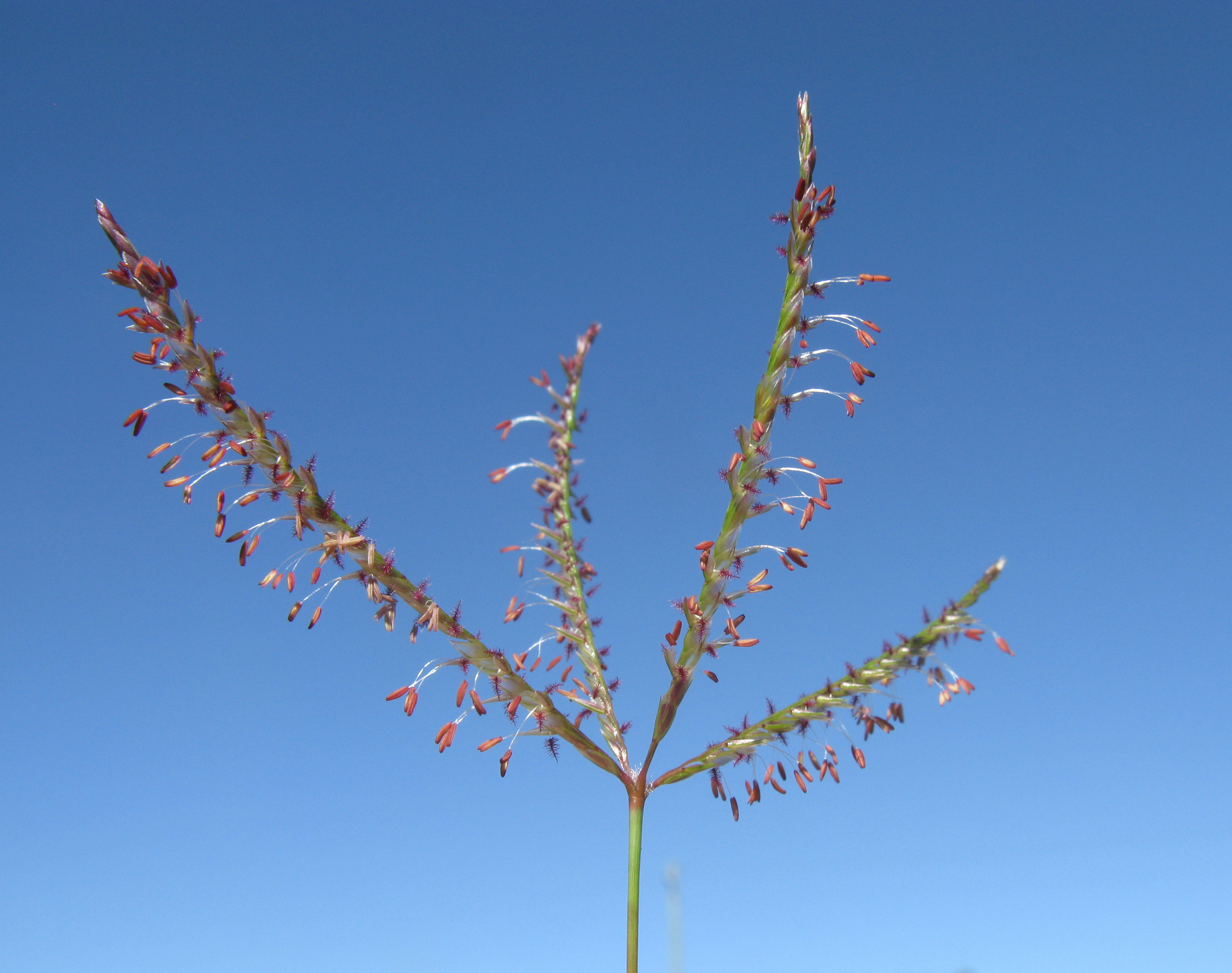 Native, warm-season perennial, mat-forming grass to 30 cm tall and with extensive stolons and rhizomes. Leaves are green, hairless to sparsely hairy and relatively short. Ligules are short hairs on a membranous rim with longer hairs at each end. Flowerheads are digitate, consisting of 3-7 thin, usually dark-coloured branches (2-6 cm long). Tolerant of flooding; it is often abundant around backswamps, riverbanks and regularly inundated soils. Readily colonises where pastures have been lost and often found in old cropping paddocks and horse paddocks. Extremely tolerant of acidity, salinity, low fertility, sandy, compacted and very shallow soils. A useful soil binding species, especially in difficult situations (e.g. low fertility, frequently flooded, saline or acidic soils, etc). Can be an indicator of compaction, salinity, sandy soils and /or high water table. A weed of ploughed paddocks, where it is difficult to eradicate. Not very productive and has low palatability for livestock. Stock will avoid it when stemmy. Rarely causes cyanide poisoning; this mostly occurs following drought breaking rains. Tolerant of heavy set stocking and provides useful ground cover in horse pastures.